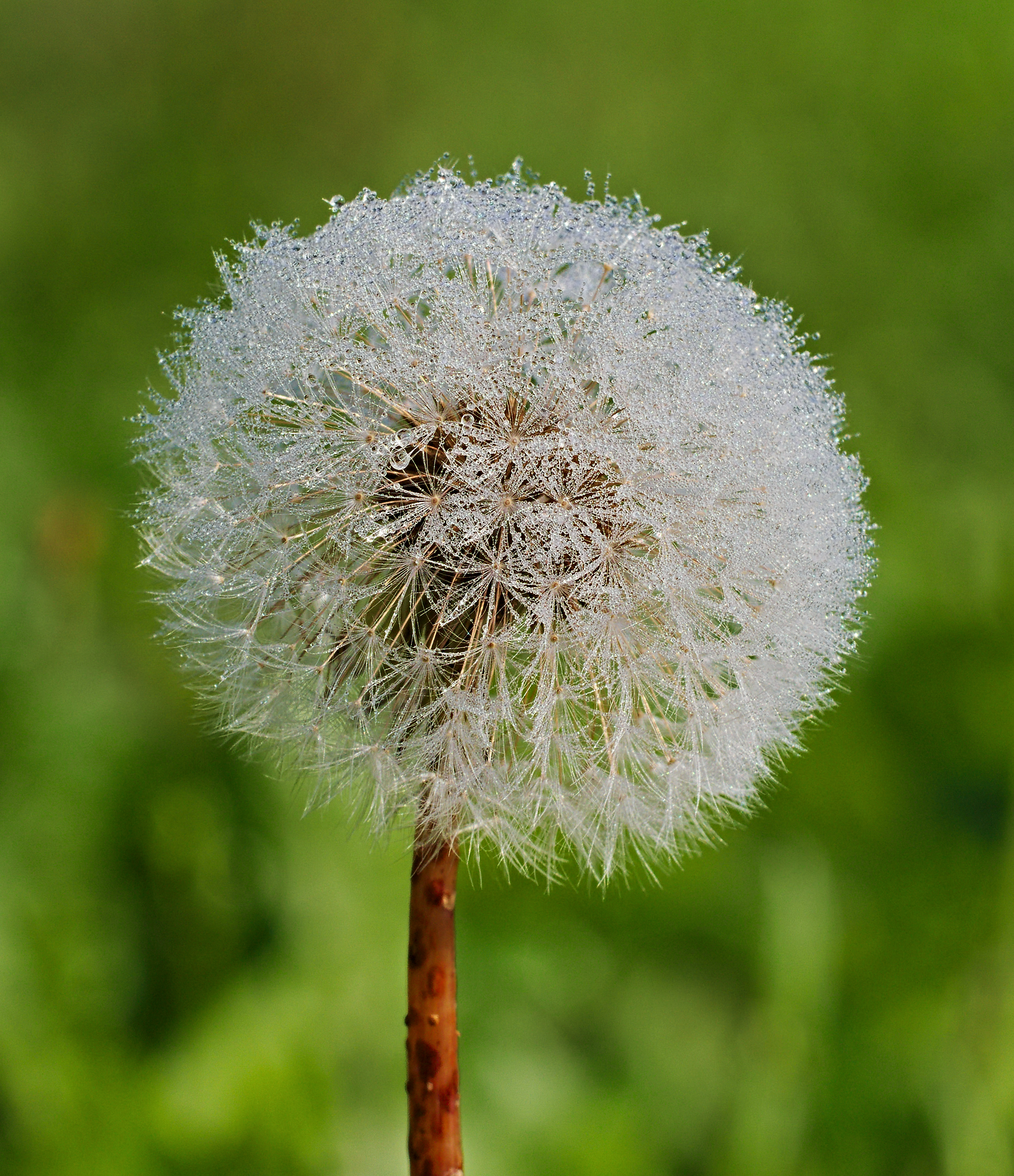 Taraxacum officinale, blowball. Taken in Mannheim, Kirschgartshäuser Schläge, Baden-Württemberg, Germany.